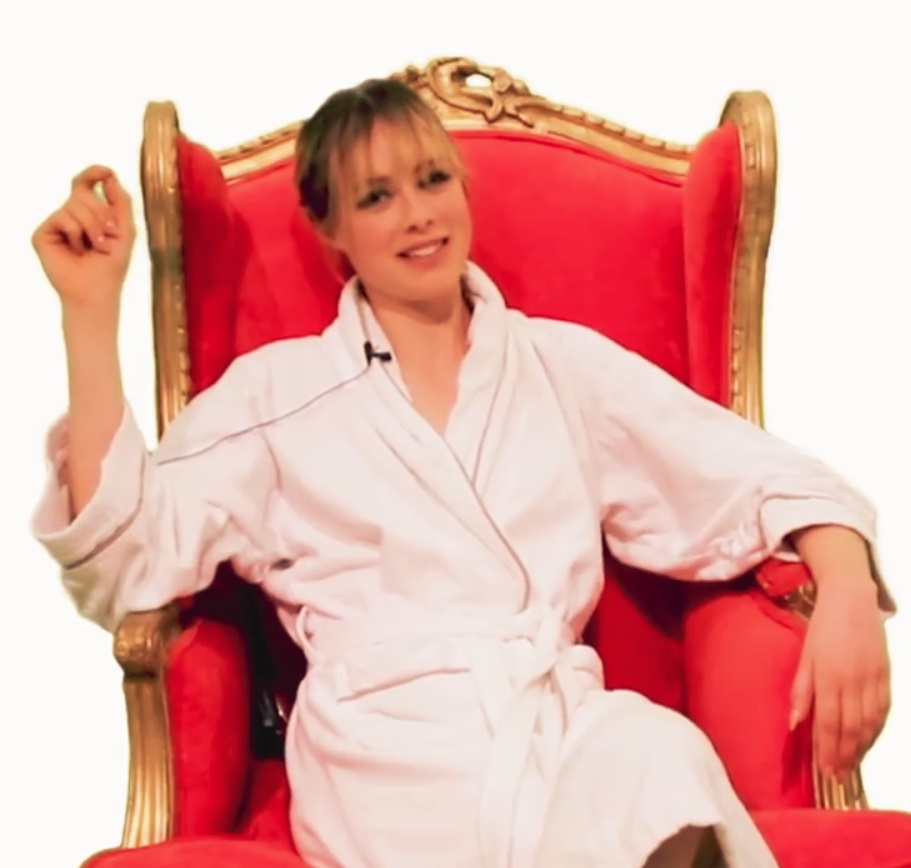 English model Edie Campbell on Big Sister Episode 2 - Edie Campell, rumours - LOVE Edie Campbell and the rest of the 17.5 girls discuss those malicious rumours...